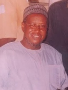 Sheikh Ja'afar Mahmud Adam